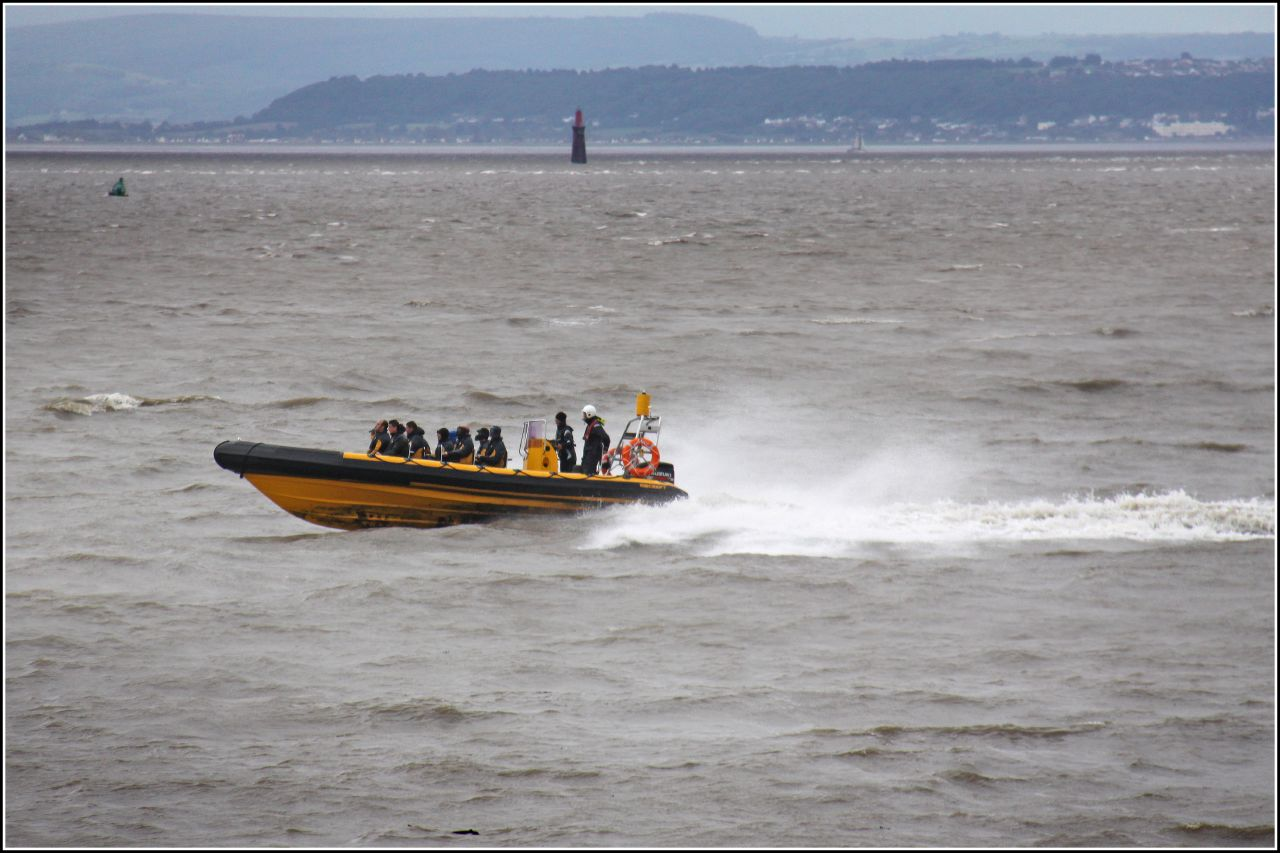 Fast boat ride